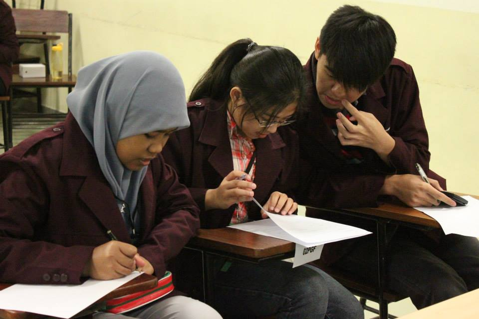 Contoh usaha belajar